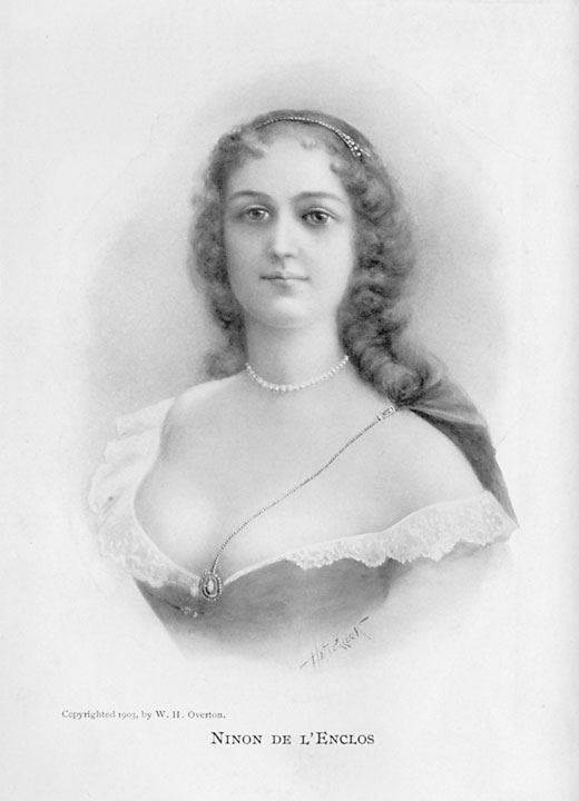 A picture of Ninon de l'Enclos